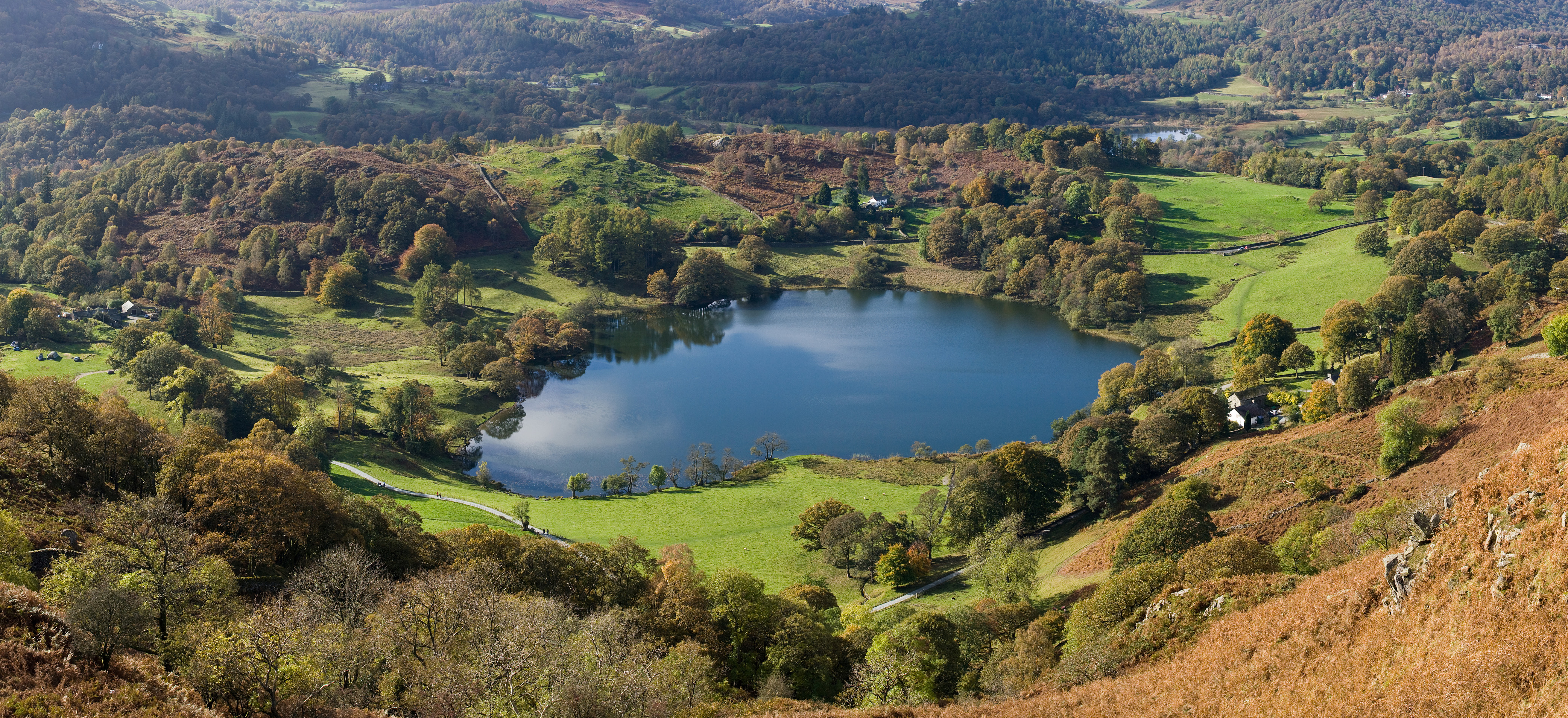 Loughrigg Tarn, as viewed from Loughrigg Fell in the Lake District, England.